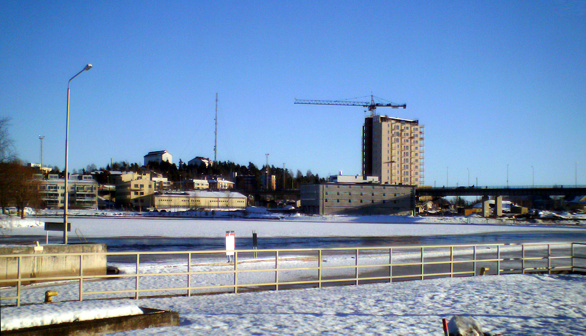 Joensuu, Finland